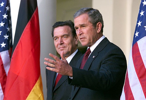 George W. Bush and Gerhard Schröder address the media from the White House steps in the Rose Garden.